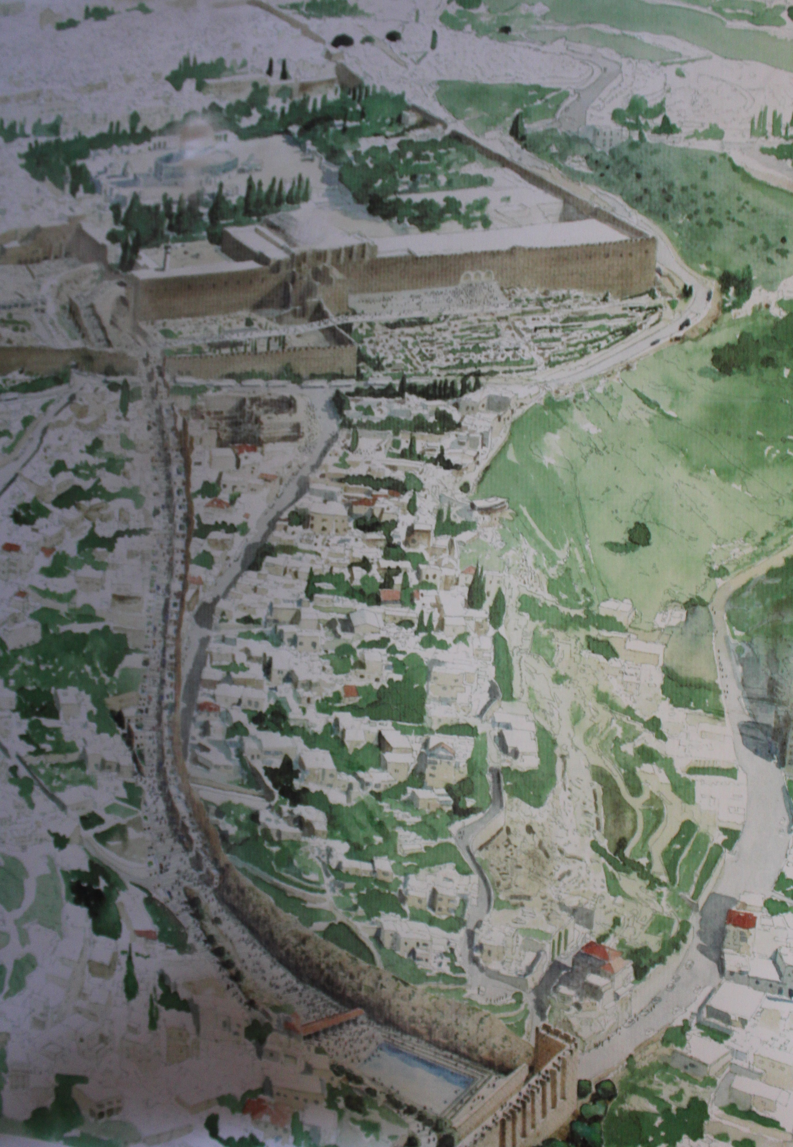 The Western Stepped Pilgrims Road, City of David, Jerusalem This image was taken as part of the Elef Millim project trip to the City of David, in Jerusalem which was held on Friday, 16th August 2013. To view all images uploaded as part of the Elef Millim Project